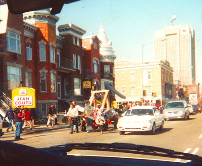 Protesters carrying a mock catapult. Summit of the Americas, Quebec City, Canada, April 2001.